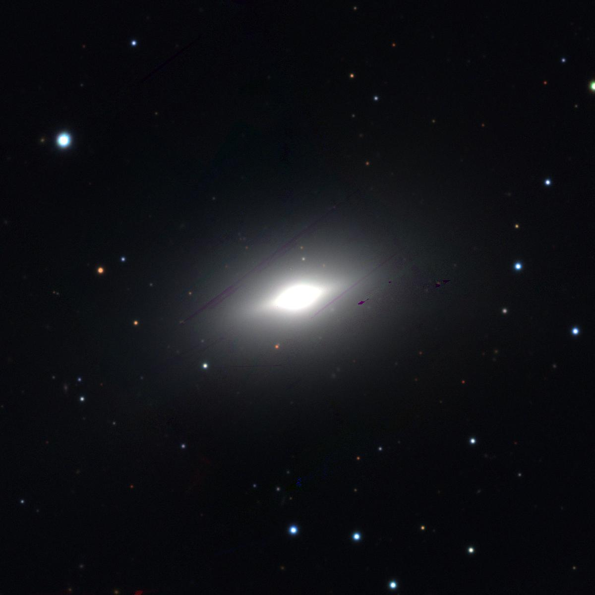 Color image of NGC 3585 created by the stacking of i, r and g filter images provided by PanSTARRS-1 archive.